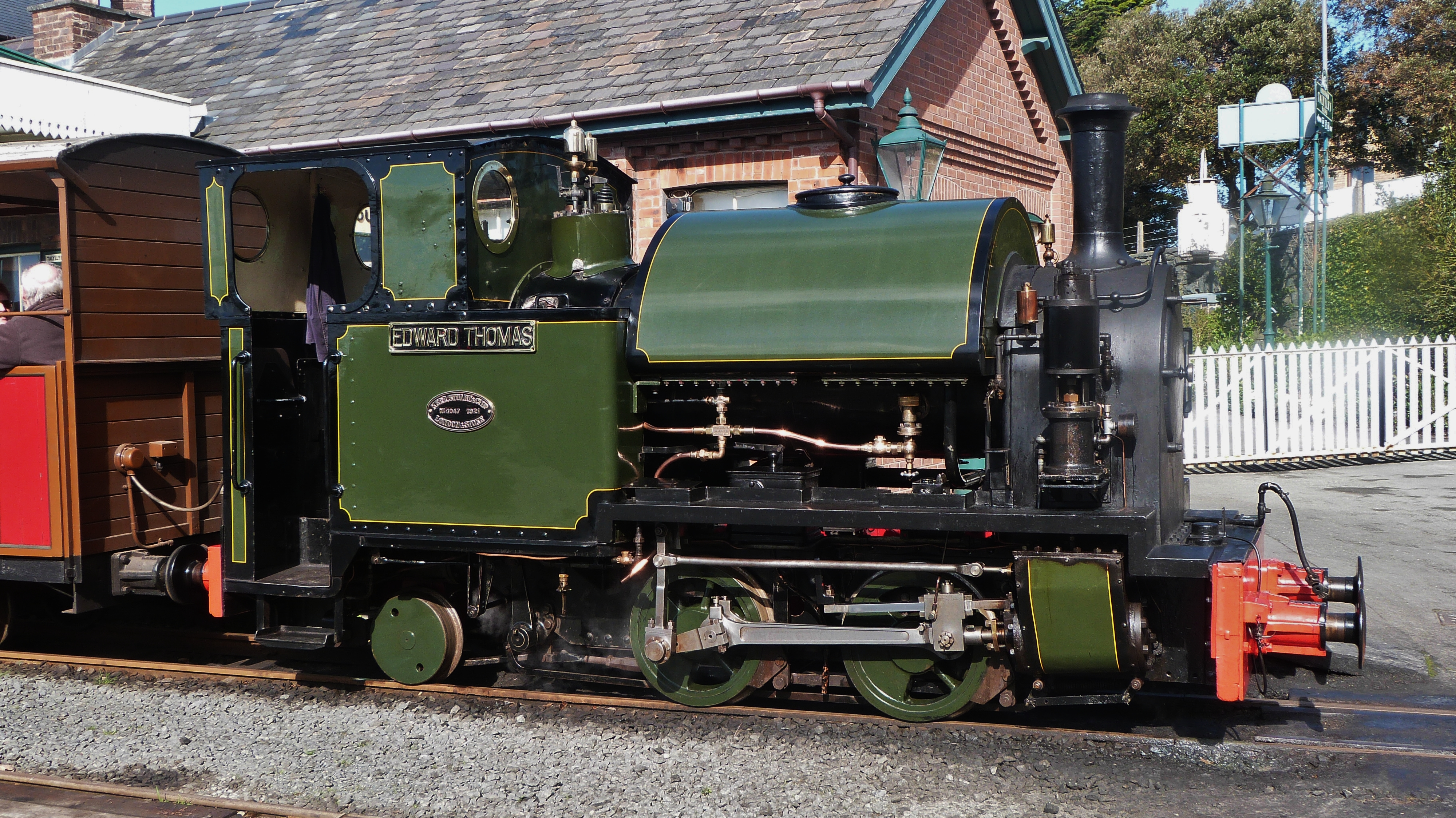 Edward Thomas is a narrow gauge steam locomotive. Built by Kerr Stuart & Co. Ltd. at the California Works, Stoke-on-Trent in 1921, it was delivered new to the Corris Railway where it ran until 1948. After that railway closed, the locomotive was brought to the Talyllyn Railway in 1951, then restored, and remains in working order at the heritage railway. It has carried the operating number 4 under four successive owners.